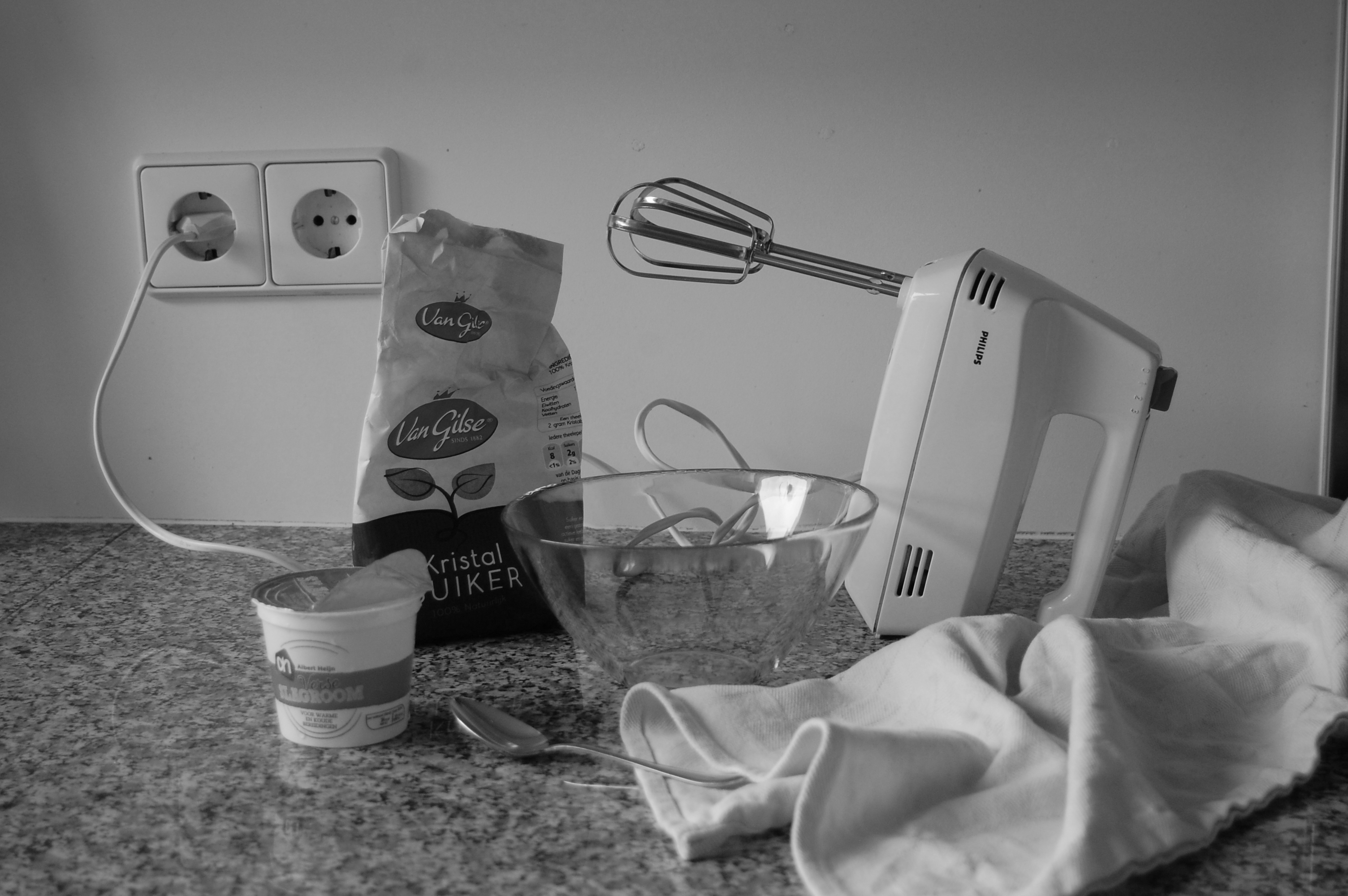 Still life in black and white for preparing whipped cream (photograph)